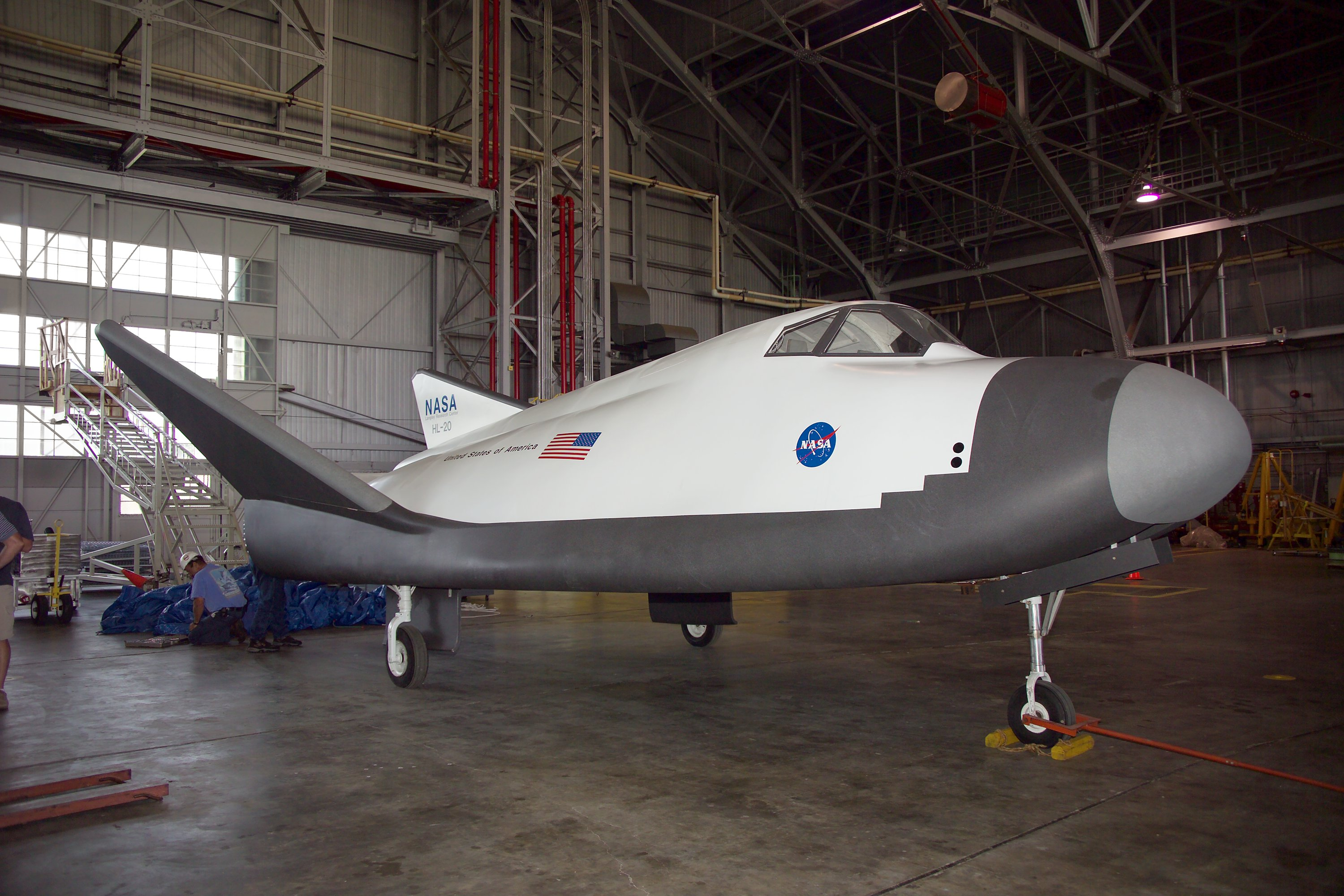 Retouched.